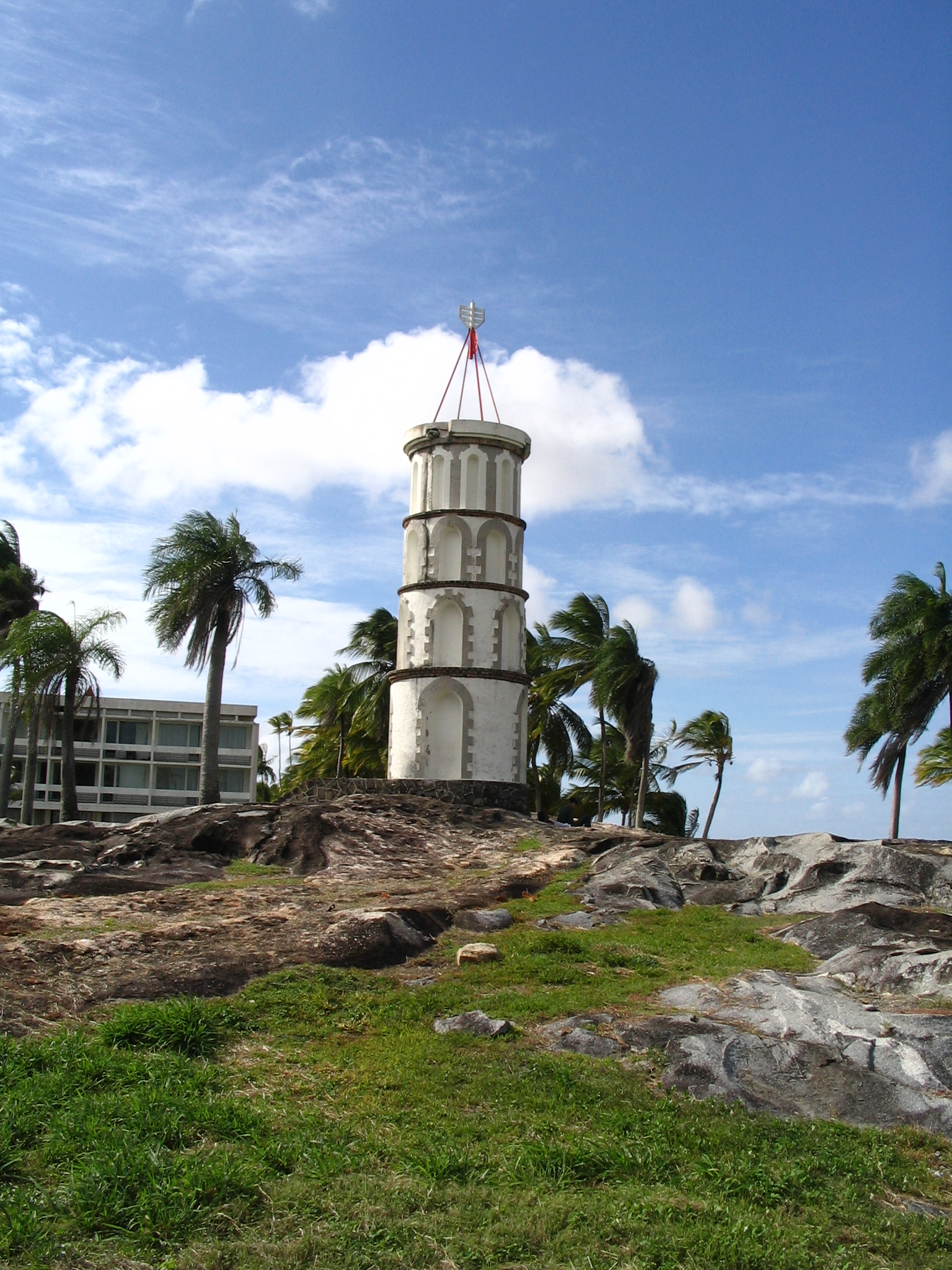 French Guiana. Kourou's Dreyfus Tower (Tour Dreyfus) as seen from the Pointe des Roches, where the Kourou River meets the Atlantic. Taken by Arria Belli.